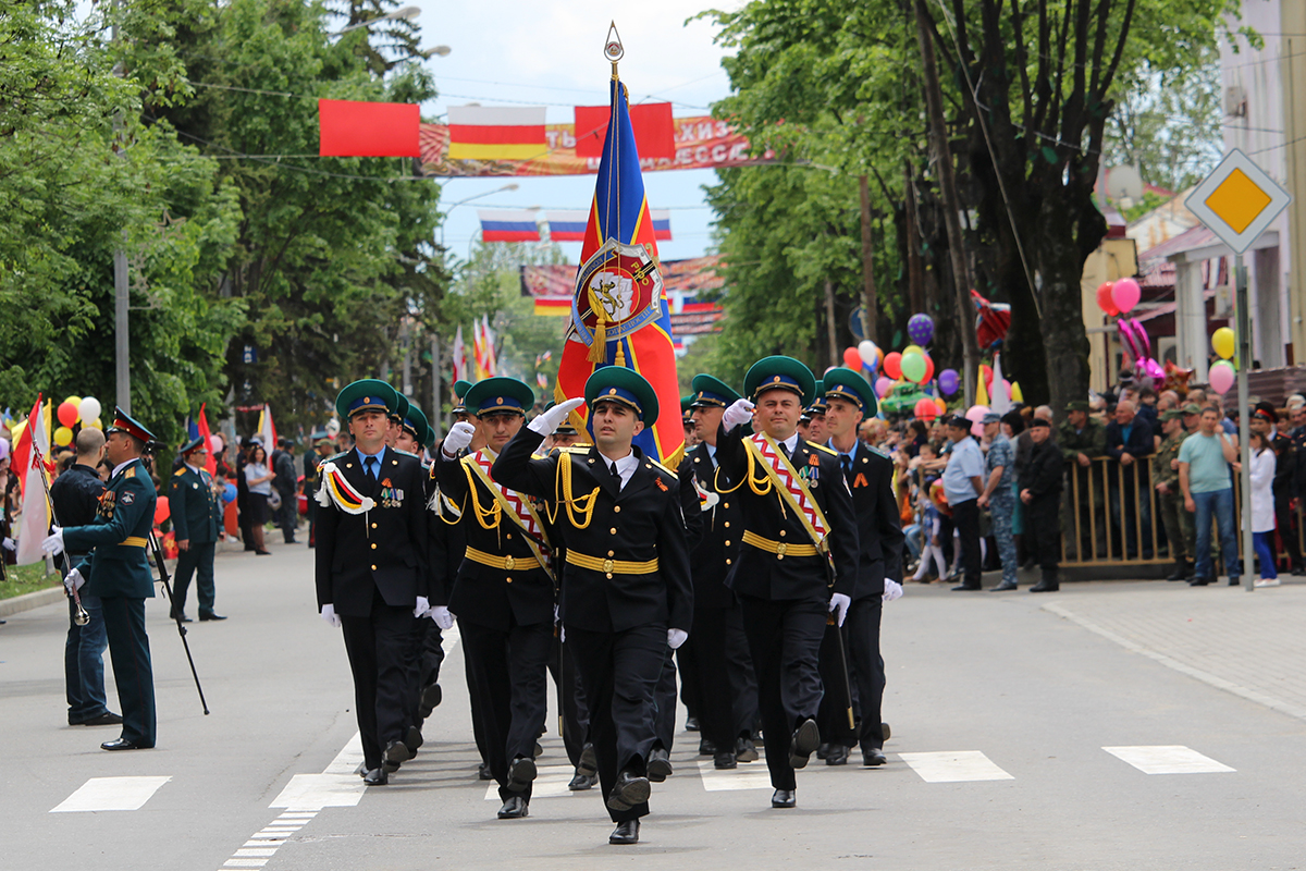 Военнослужащие российской военной базы 58-й общевойсковой армии Южного военного округа (ЮВО) в Республике Южная Осетия приняли участие в параде в ознаменование 73-й годовщины Победы в Великой Отечественной войне